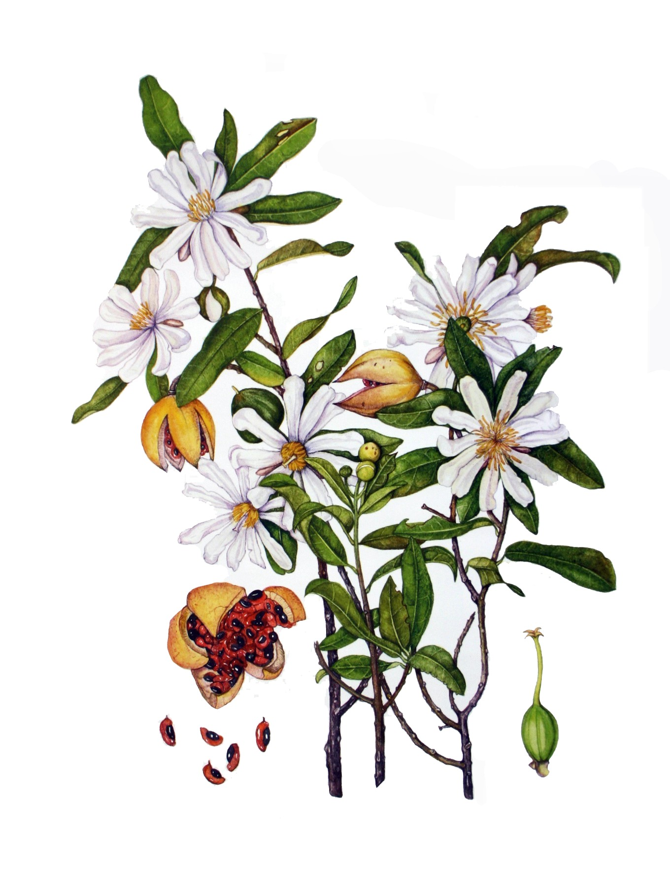 Xylotheca_kraussiana - painting by Barbara Pike, South African botanical painter